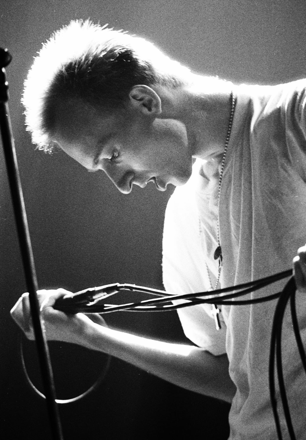 The German singer / songwriter Tobias Gruben on stage with the band Die Erde (Markthalle Hamburg, 18.11.89)